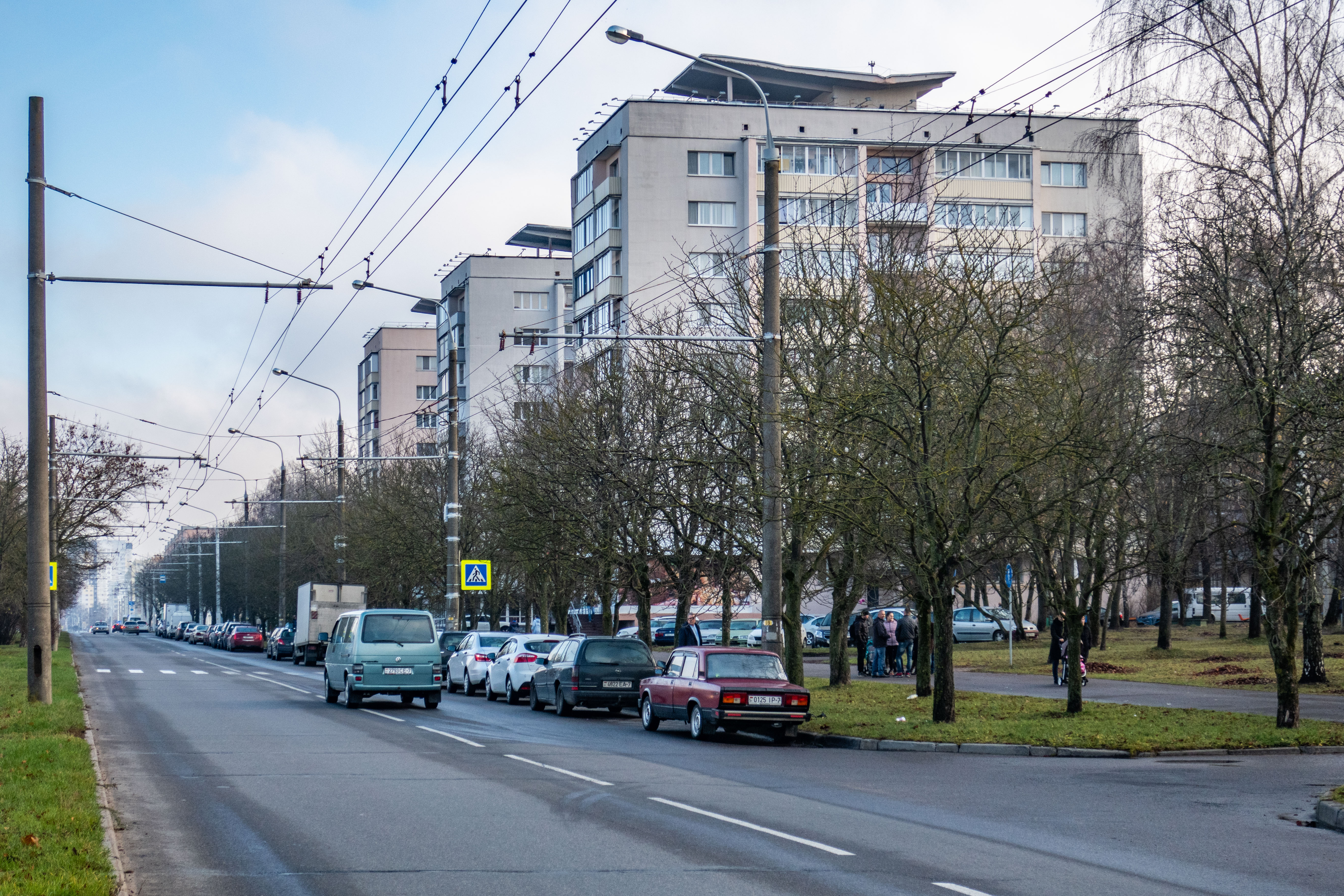 Haladzieda street. Minsk, Belarus